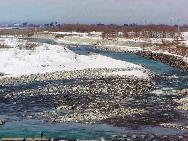 The Kurobe River near Unazuki, Toyama Prefecture, Japan.